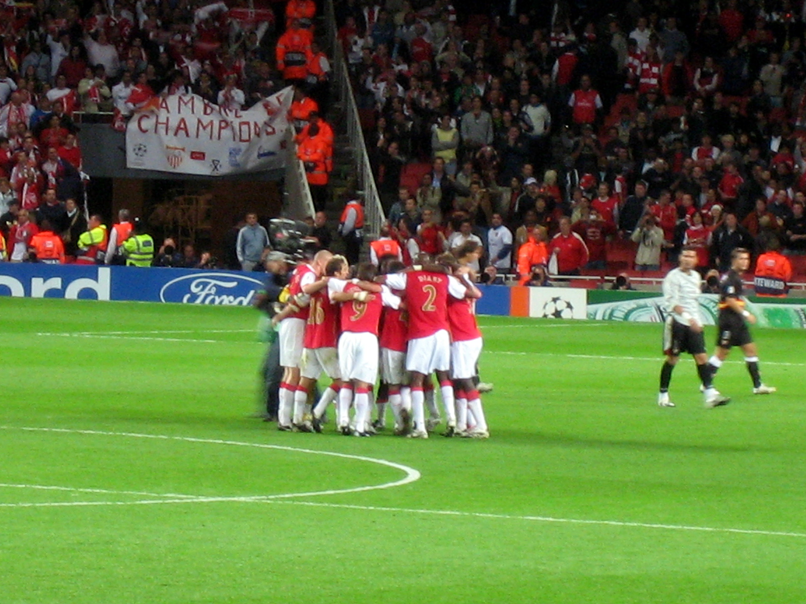 Champions League 2007-08 first match between Arsenal and Sevilla, in the Emirates Stadium. Arsenal celebrates its victory.